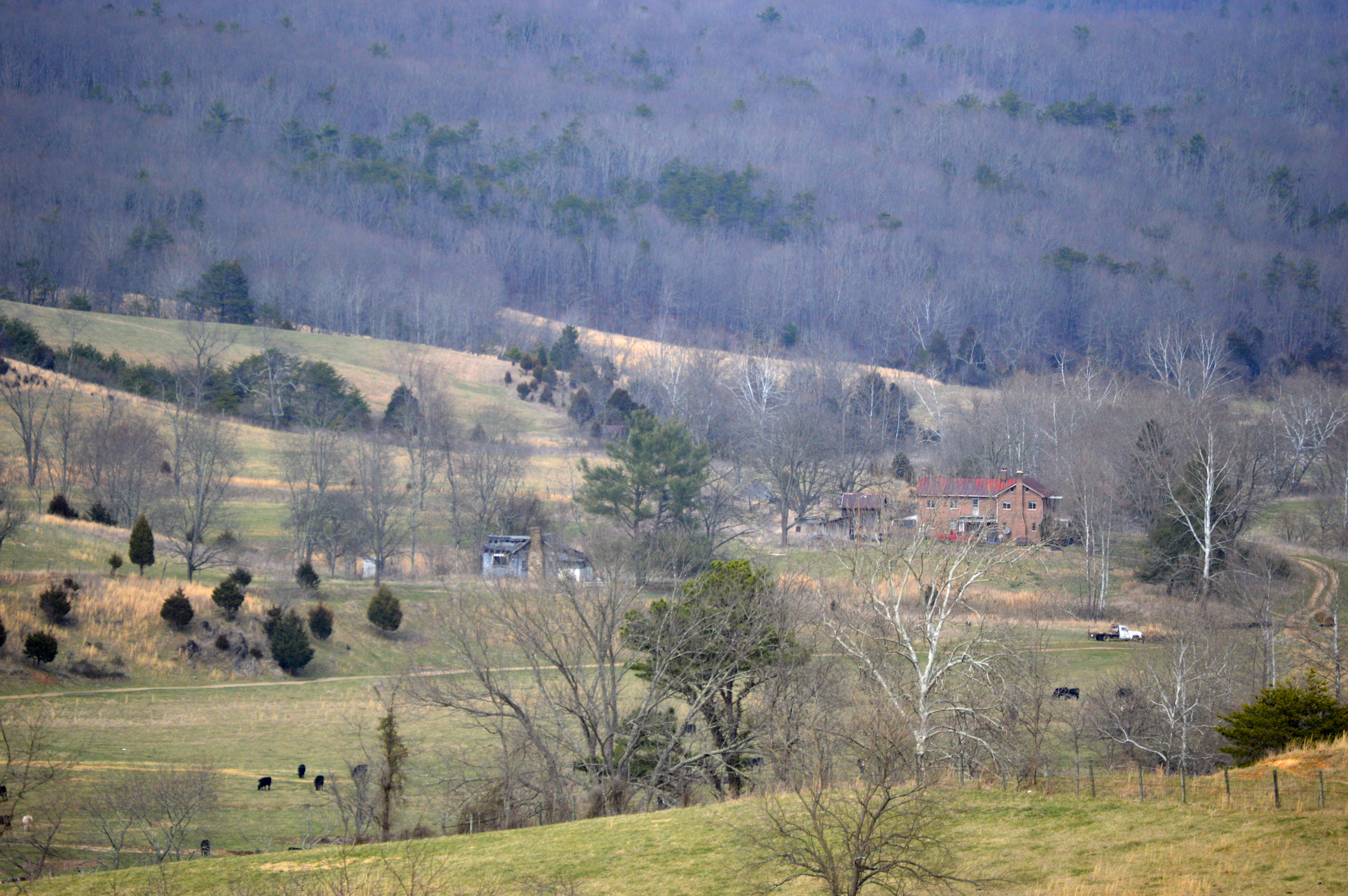 Distant view from the south of some of the buildings in the Belle-Hampton complex, located on Highland Road just northeast of Highland in Pulaski County, Virginia, United States. Built in 1826, the farmstead is listed on the National Register of Historic Places.